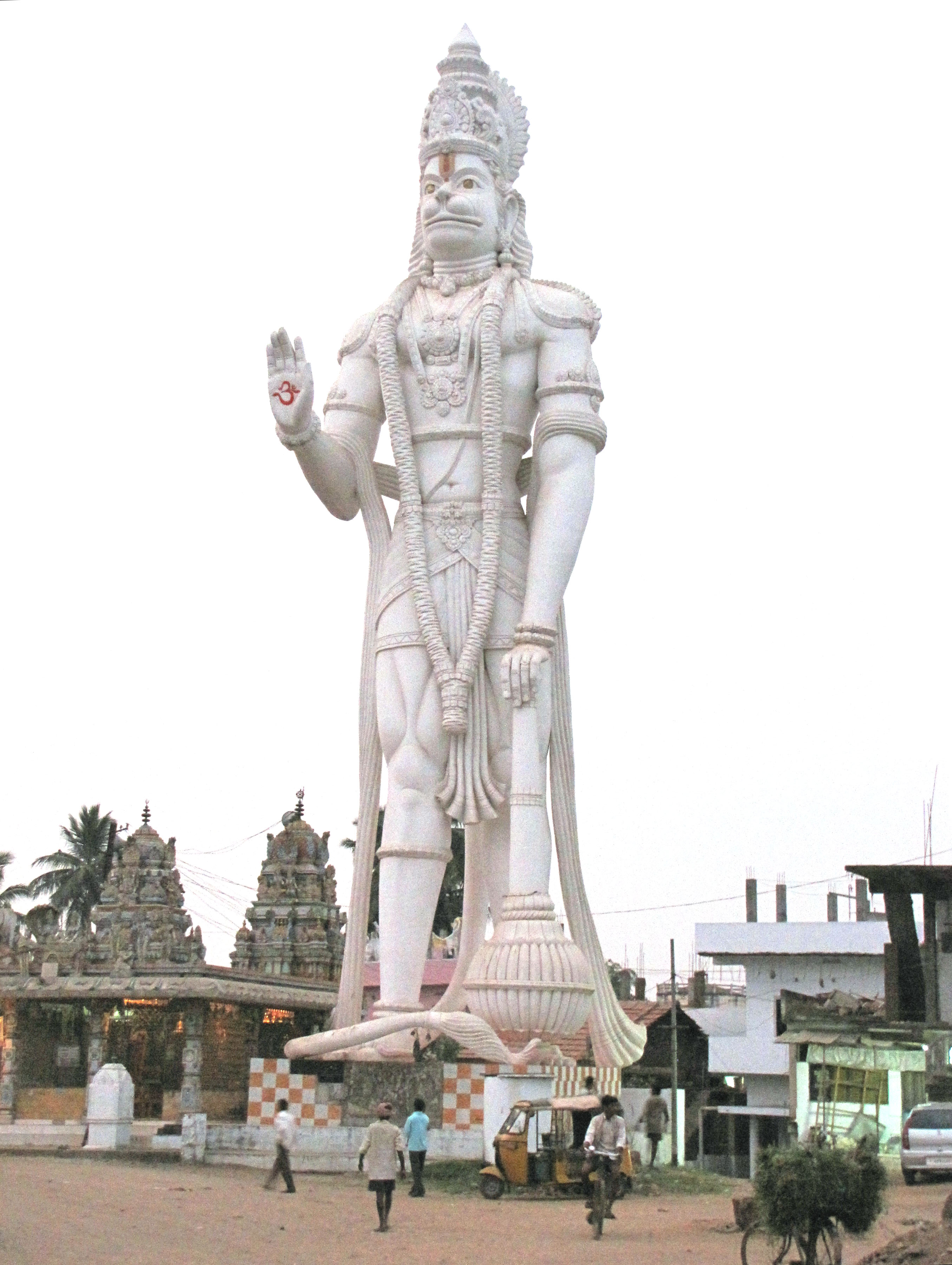 Photo of the world's largest statue of Hanuman, Partala, Andhra Pradesh, India